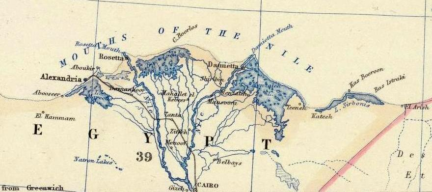 Turkey in Asia, Asia Minor, and Transcaucasia. By Keith Johnston, F.R.S.E. Engraved & printed by W. & A.K. Johnston, Edinburgh. William Blackwood & Sons, Edinburgh & London, (1861)